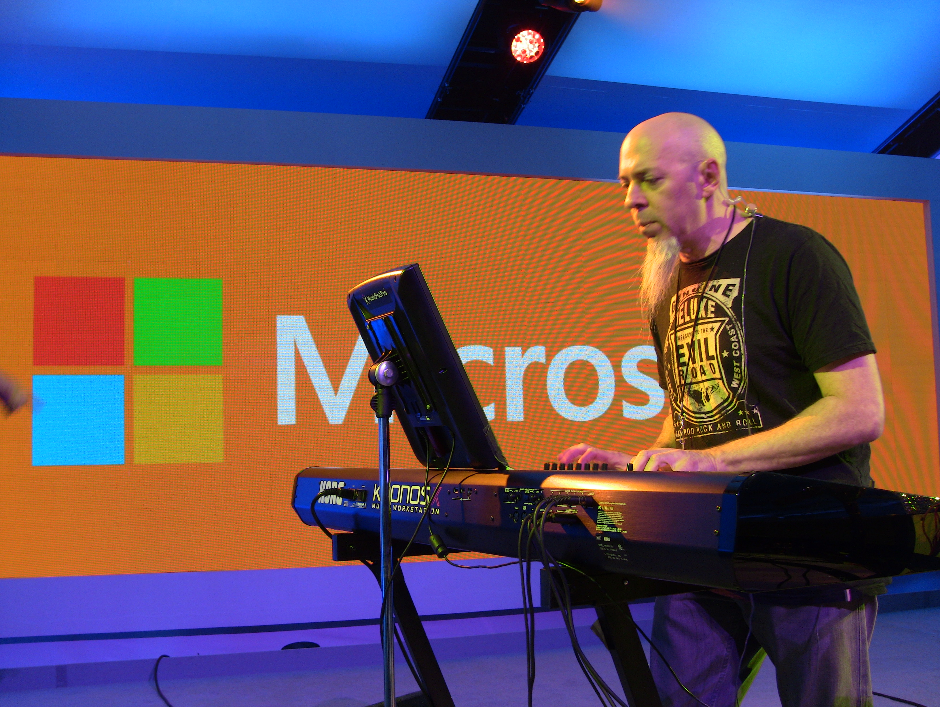 Jordan Rudess at Microsoft Build 2012 Build 2012 Pre-Show and Rehearsal